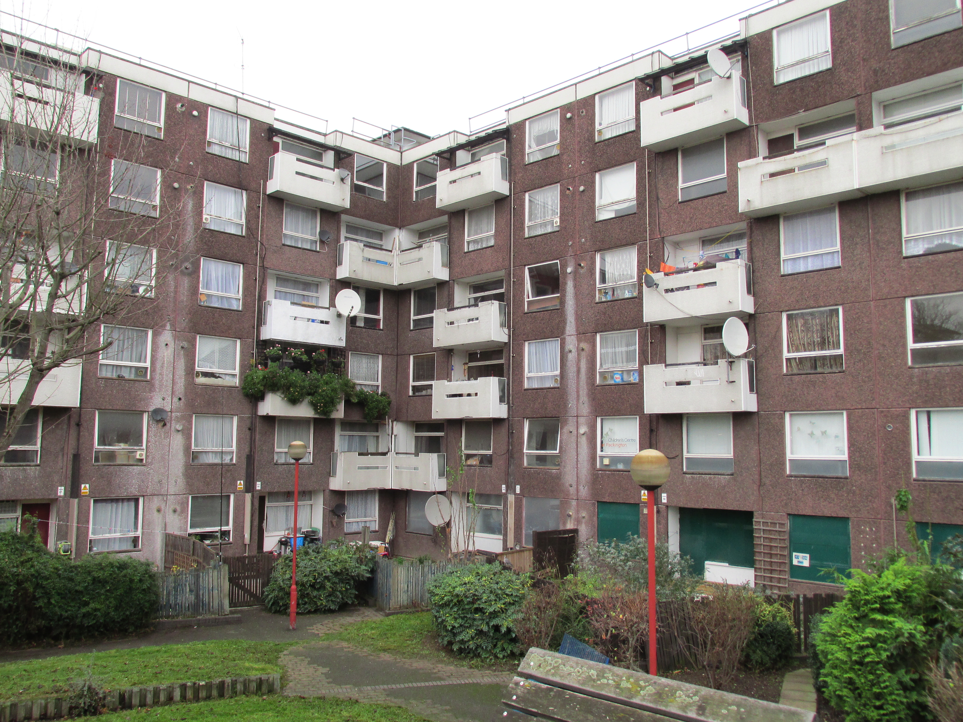 London December 14 2015 010 Packington Estate Redevelopment Islington